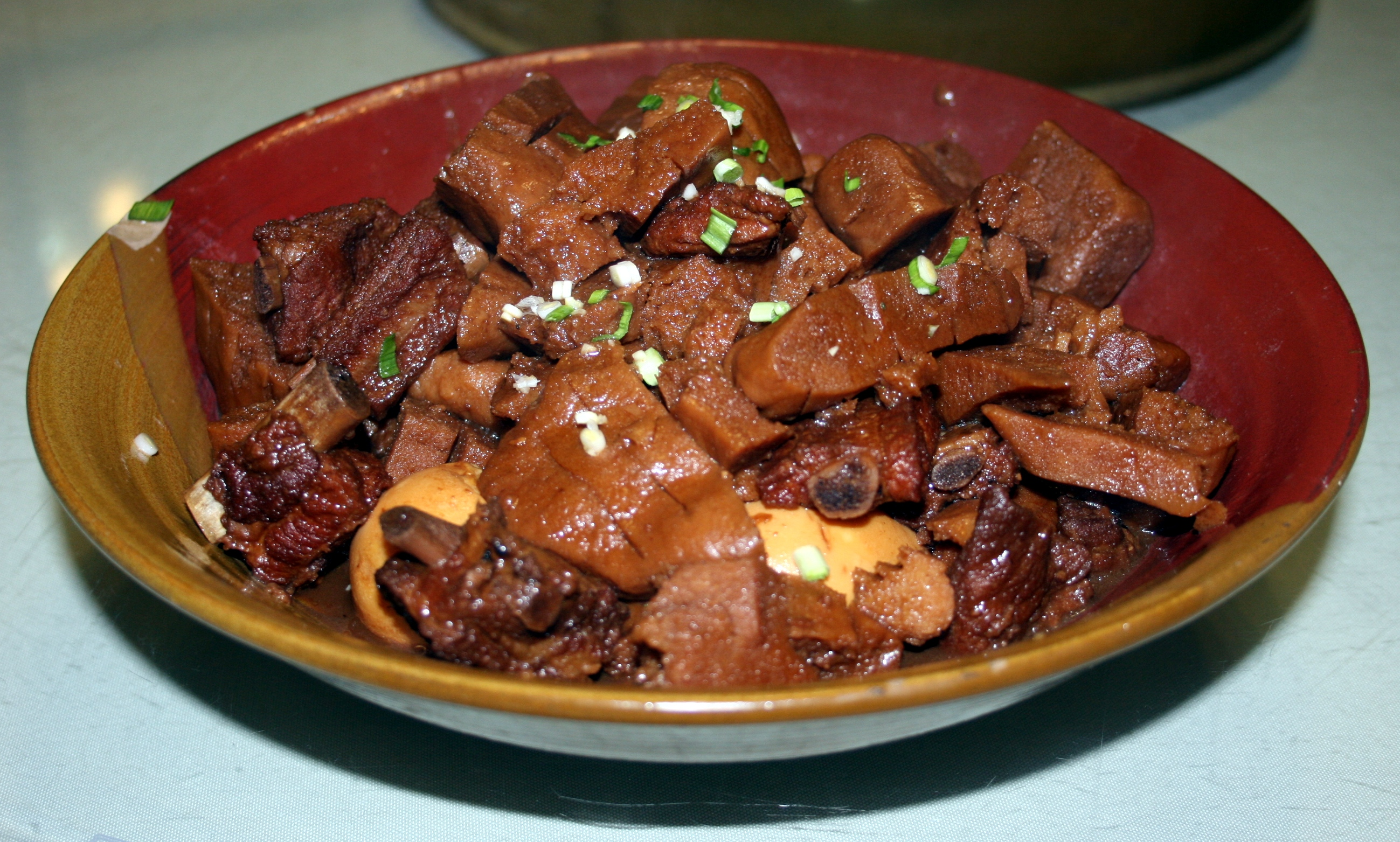 Photograph of the mianjin hongshao paigu (面筋红烧排骨) dish served in Jinan, Shandong Province, China.